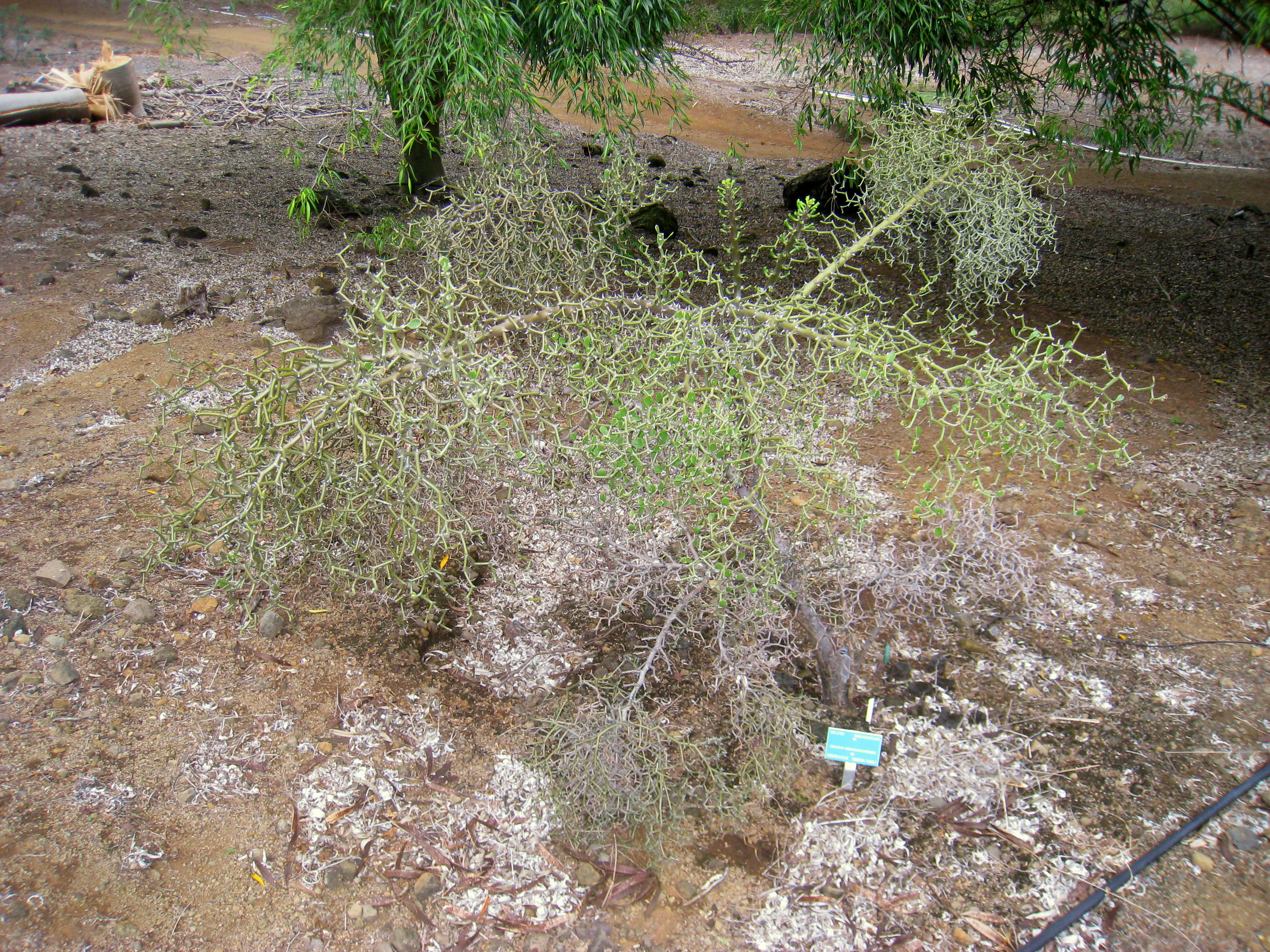 Decarya madagascariensis in the Koko Crater Botanical Garden, Honolulu, Hawaii, USA.